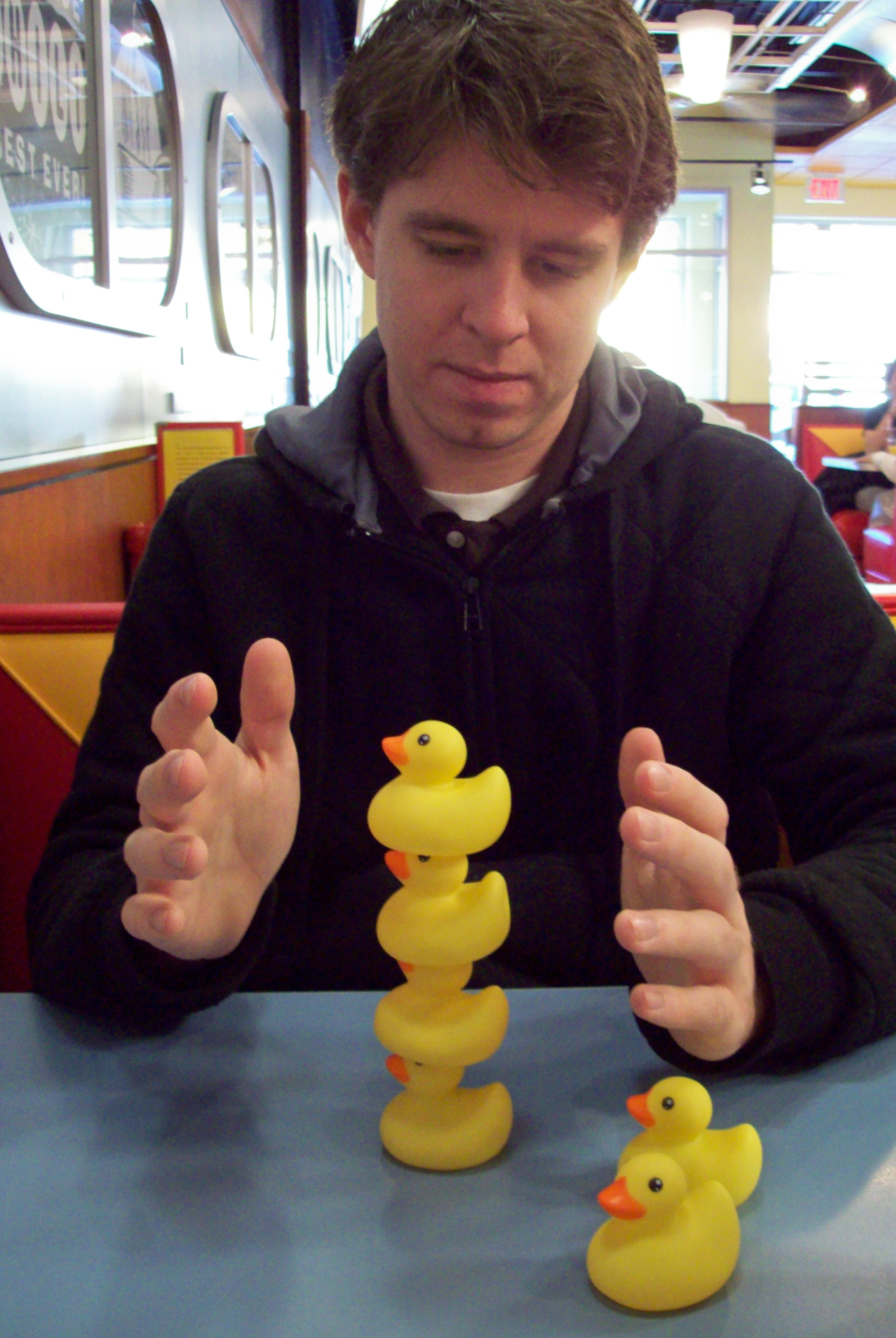 Randall Munroe balancing a stack of rubber ducks on a diner table.